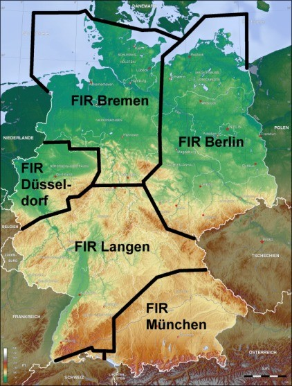 Lower Flight information Region (FIR) Germany